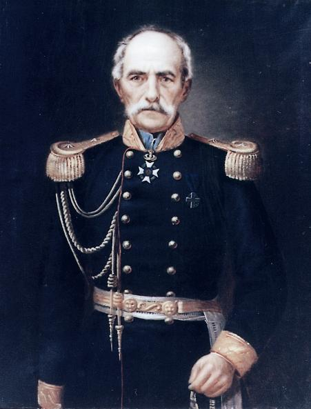 Nikolaos Petmezas - Greek Fighter of the 1821 Revolution Νικόλαος Πετμεζάς